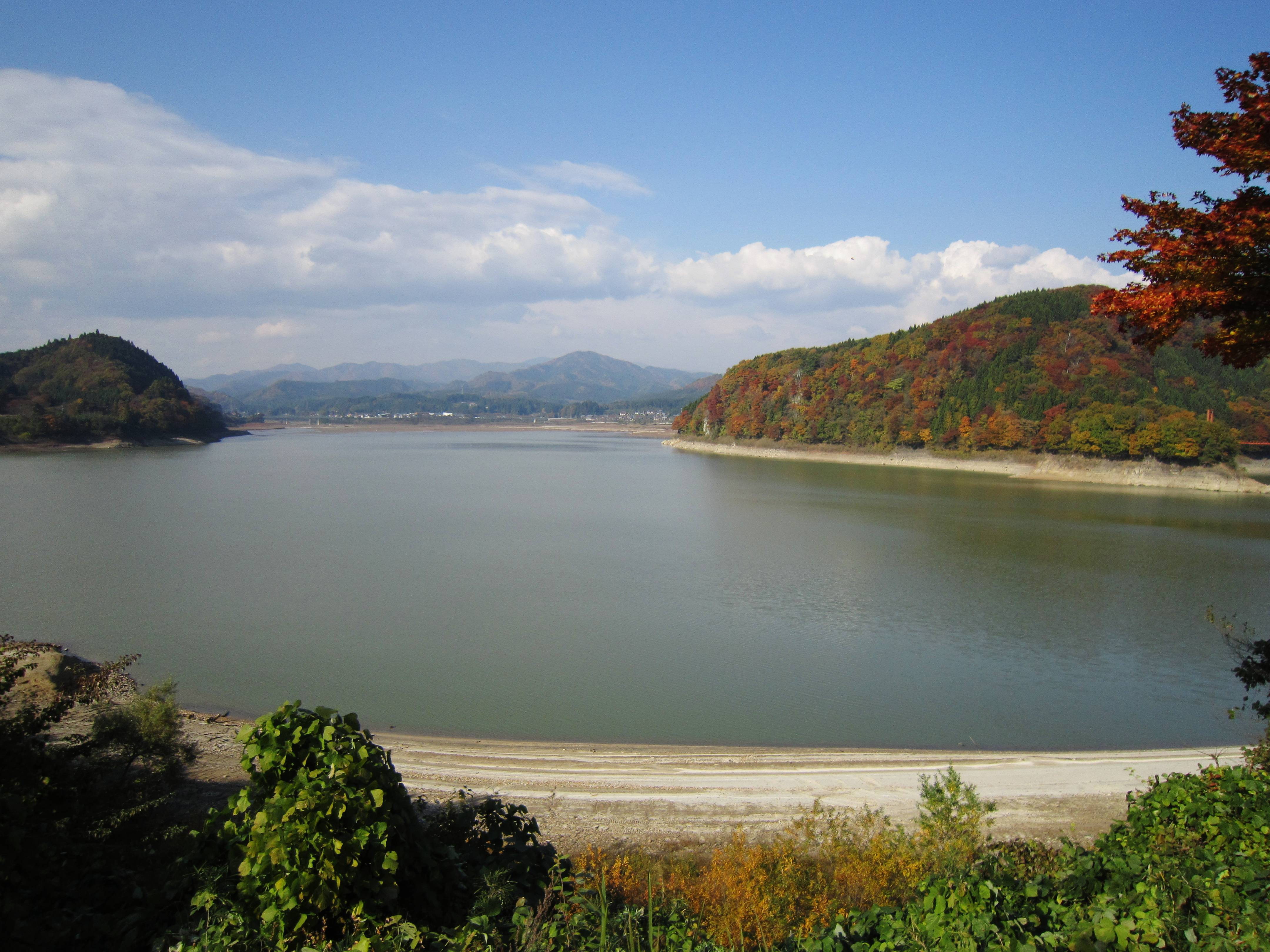 Hanayama Dam.